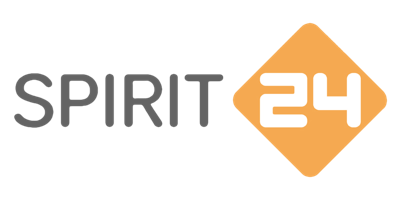 Logo of Spirit 24